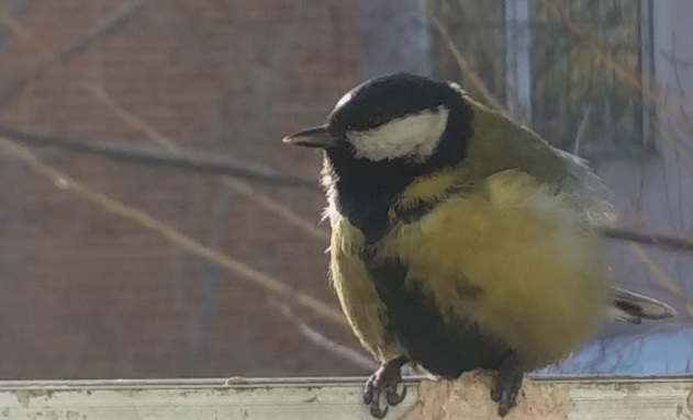 Huh buh - Great Tit Parus major 2018-01: This photo is being taken from original 1080p HD video taken by a smartphone. The phone was located 1 meter away from the bird under heavy camouflage. Location Ulaanbaatar, Mongolia. This blue tit mostly enters city zone only during the winter and in other seasons keep away from the city.Монгол: Энэ зургийг 1080-тай HD видеоноос гаргаж авсан бөгөөд видеог нь гар утсаар бичив. Видео авах байрллыг шувуунаас маш нууж битүү далдлаад шувуунаас 1м зайнаас бичив. Хөх бух нь хот суурин газарт өвлөөр хоол идэш хайж нилээн их орж ирдэг ба зундаа байгальд ойр хотоос холдож идээшилдэг.